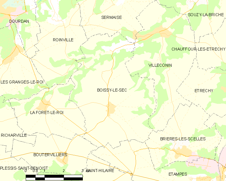 Map of French municipality Boissy-le-Sec